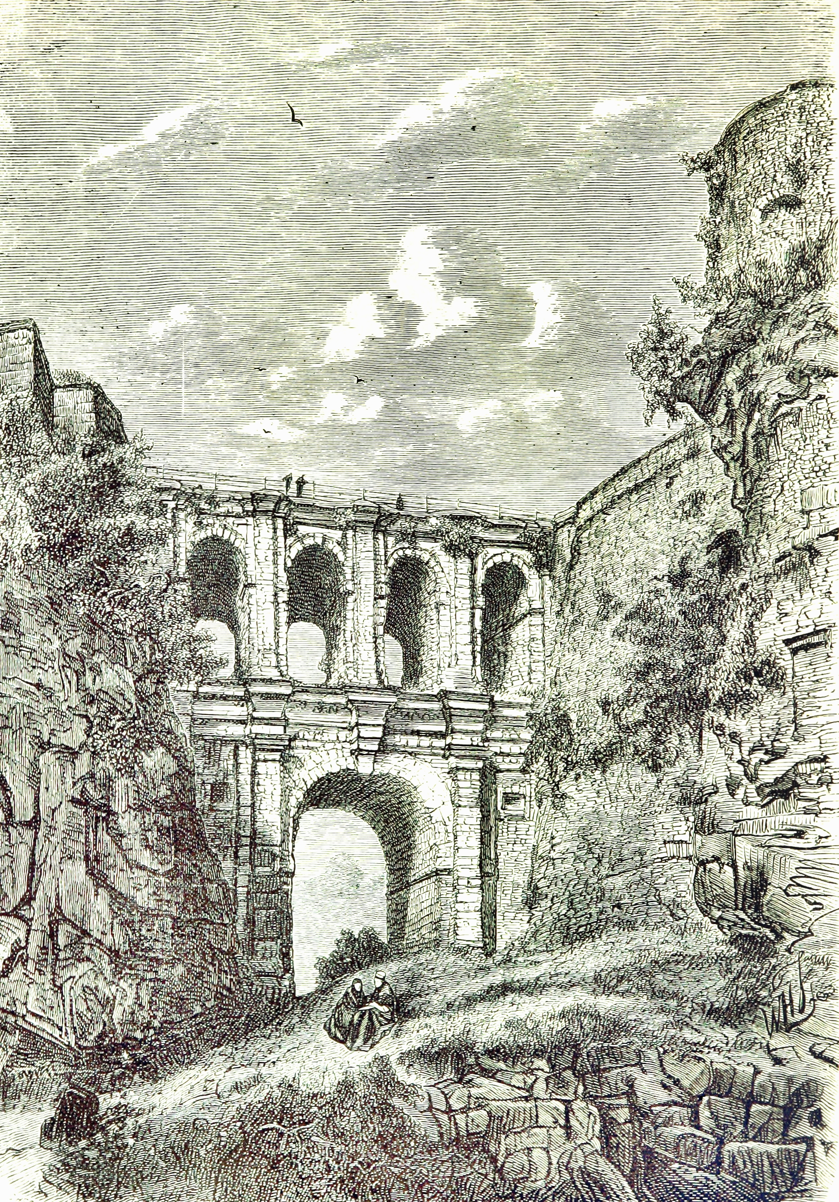 Bridge connecting the Bock to the old town of Luxembourg, built in 1735 by the Austrians.